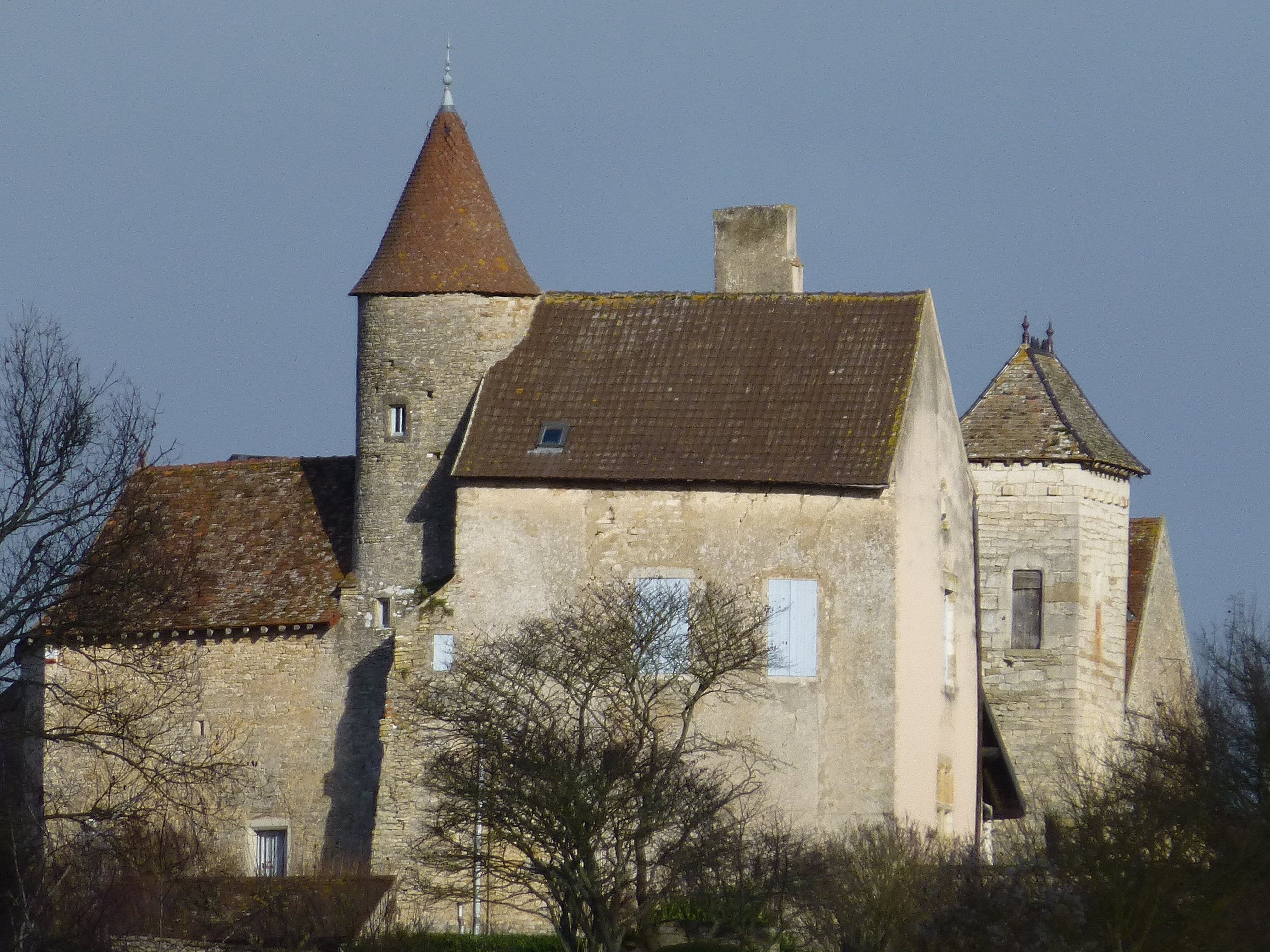 Savianges castle (south view)